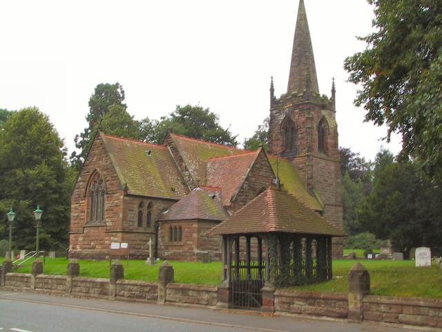 St Leonard's parish church, Dunston, Staffordshire, seen from the northeast